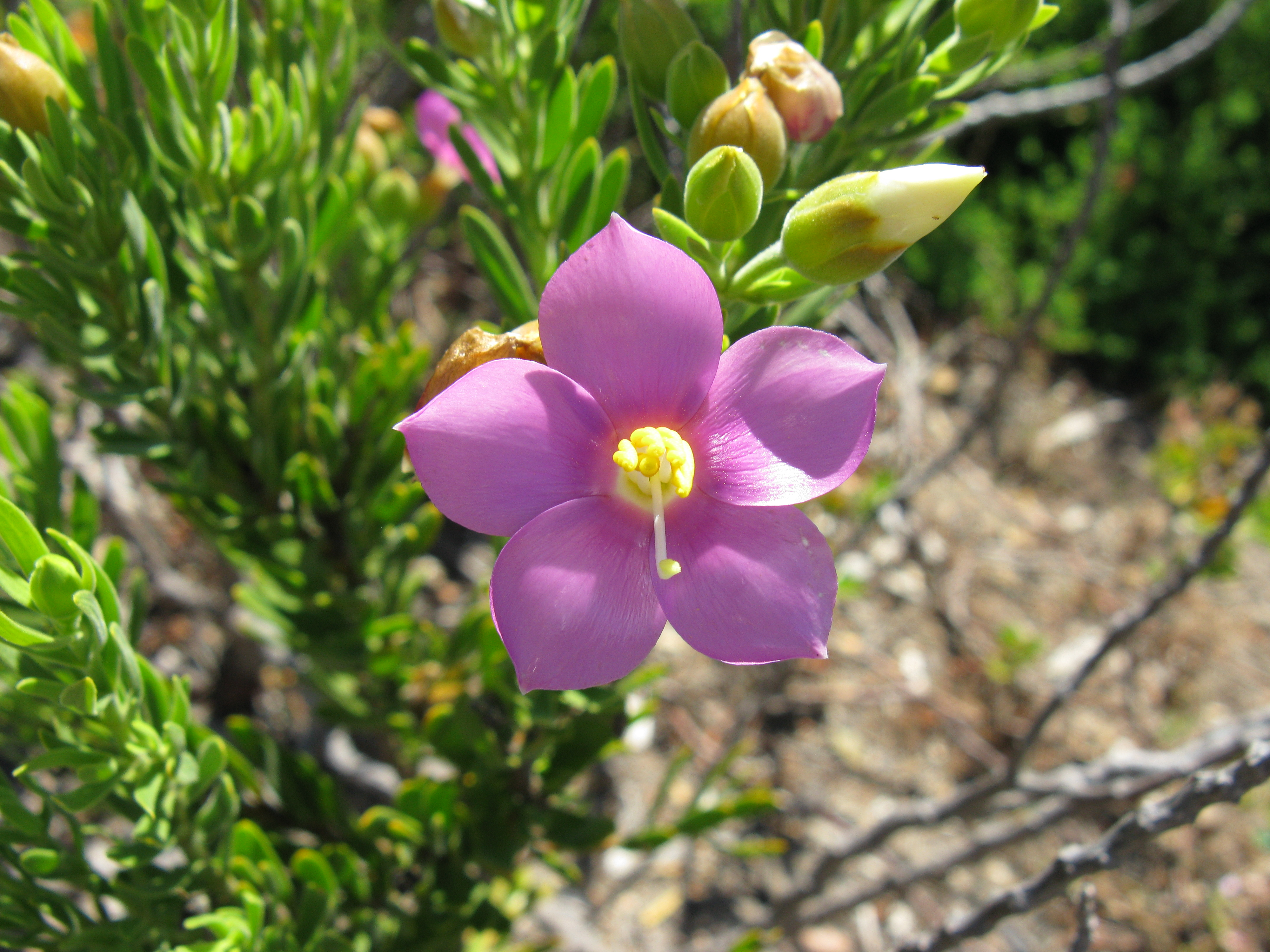 Orphium frutescens is a coastal fynbos plant growing along the coast of the south western Cape of South Africa. Its flowers are a cheerful, glossy pink with golden stamens, avidly visited by pollinators. It is a short-lived perennial that self-seeds even on unpromising soil, though it really does best on dune sands.